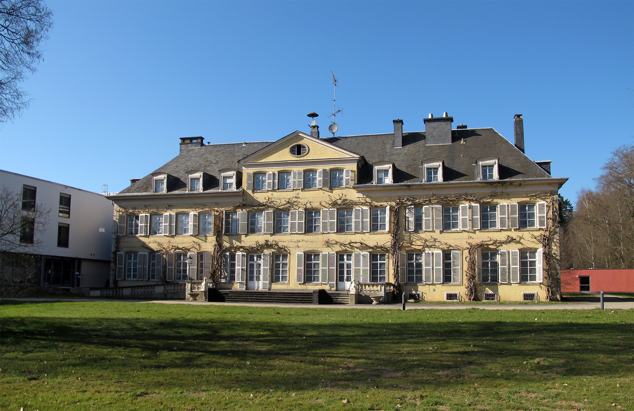 Castle of Colpach-Bas